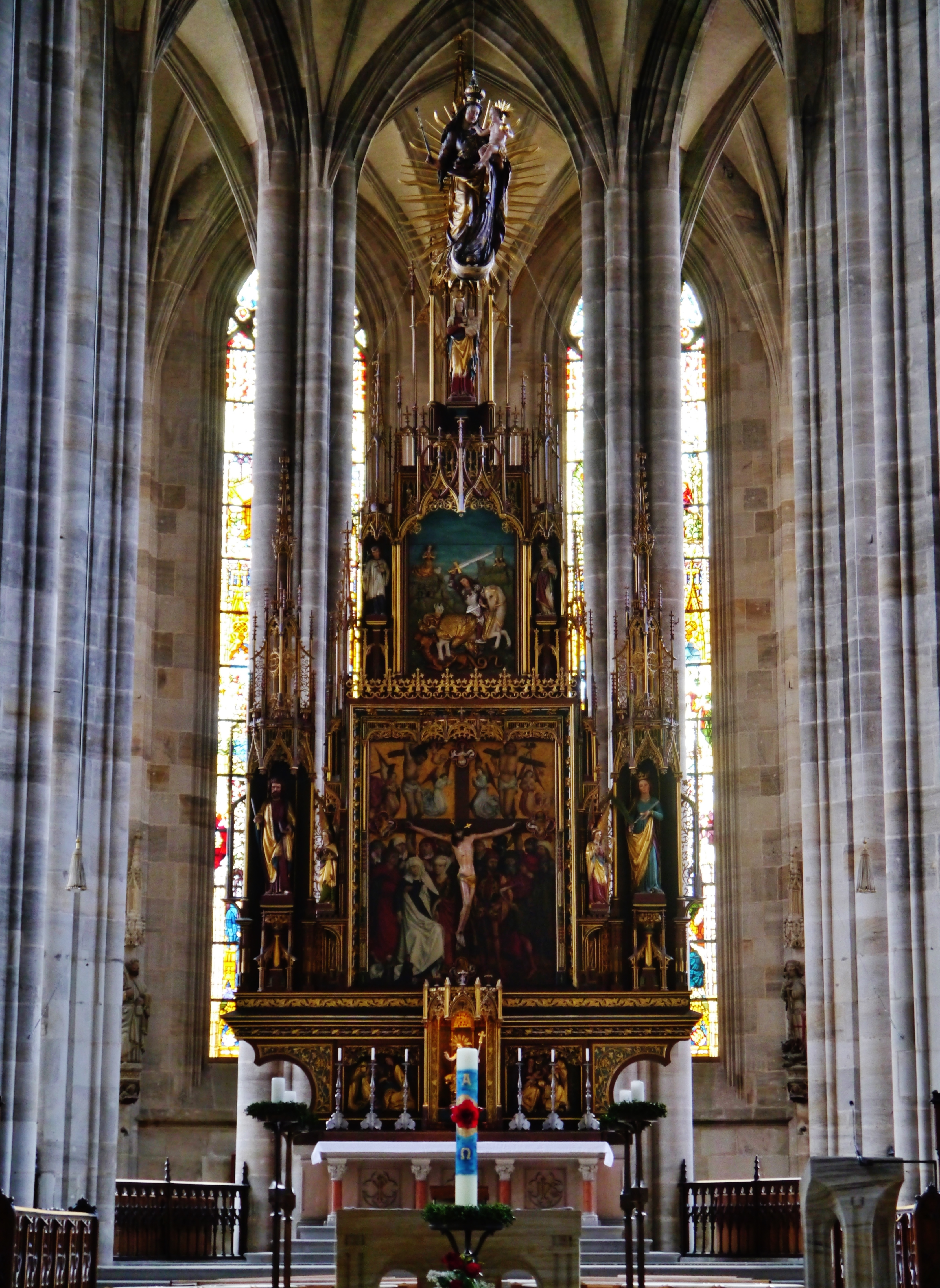 High Altar of the Minster St. George, Dinkelsbühl, Bavaria, Gerrmany